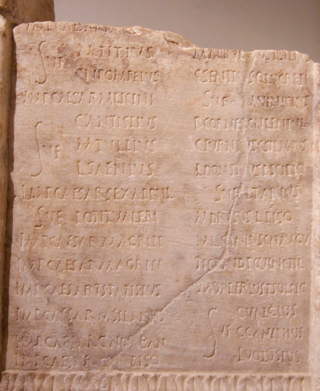 Fragment of an imperial-age consular fasti (Roman calendar) (Corpus Inscriptionum Latinarum (CIL) I, CIL VI), Museo Epigrafico, Rome